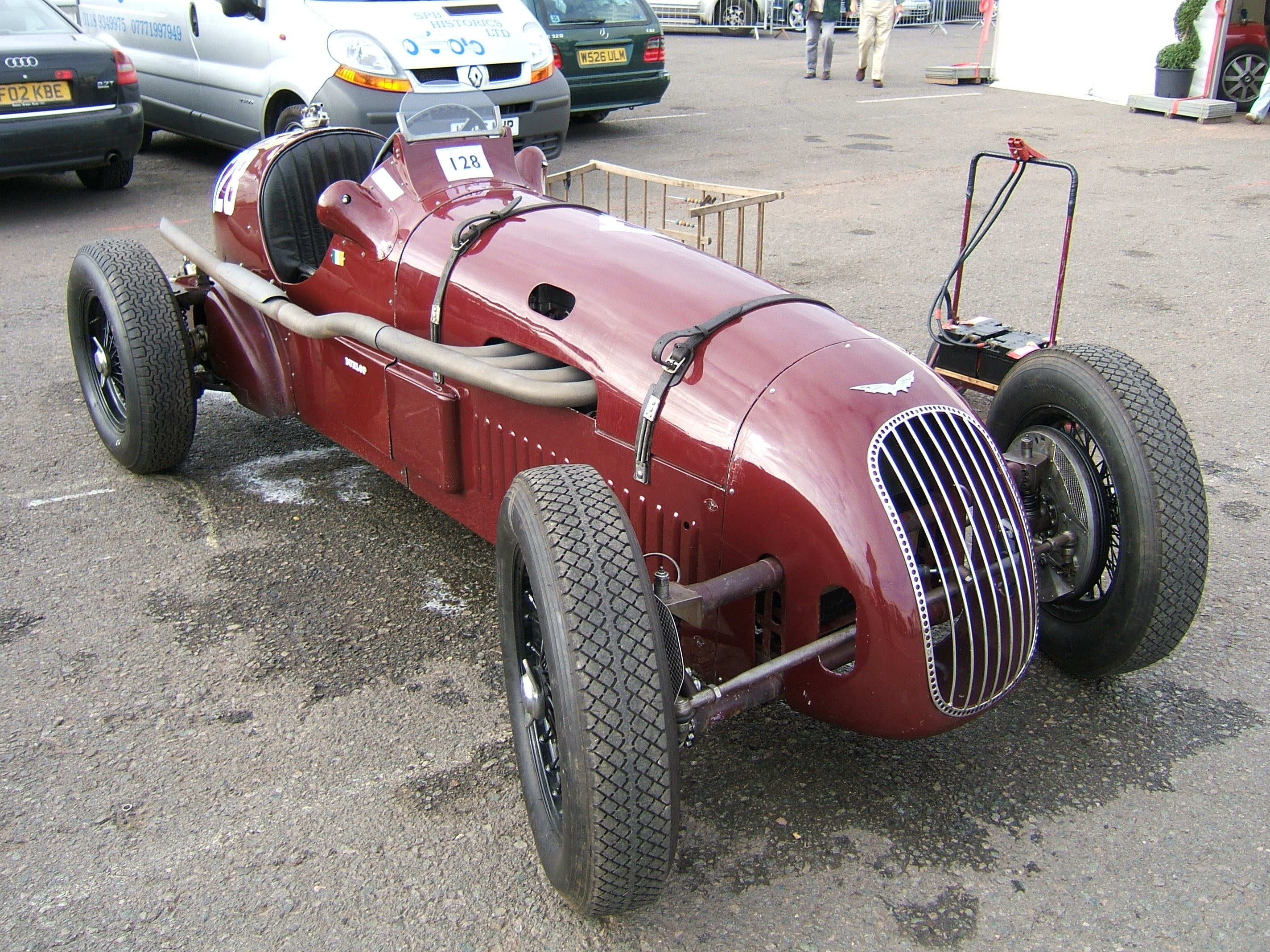 A pre-WWII Alta racing car, photographed in the paddock at the VSCC SeeRed race meeting, Donington Park, September 2007.